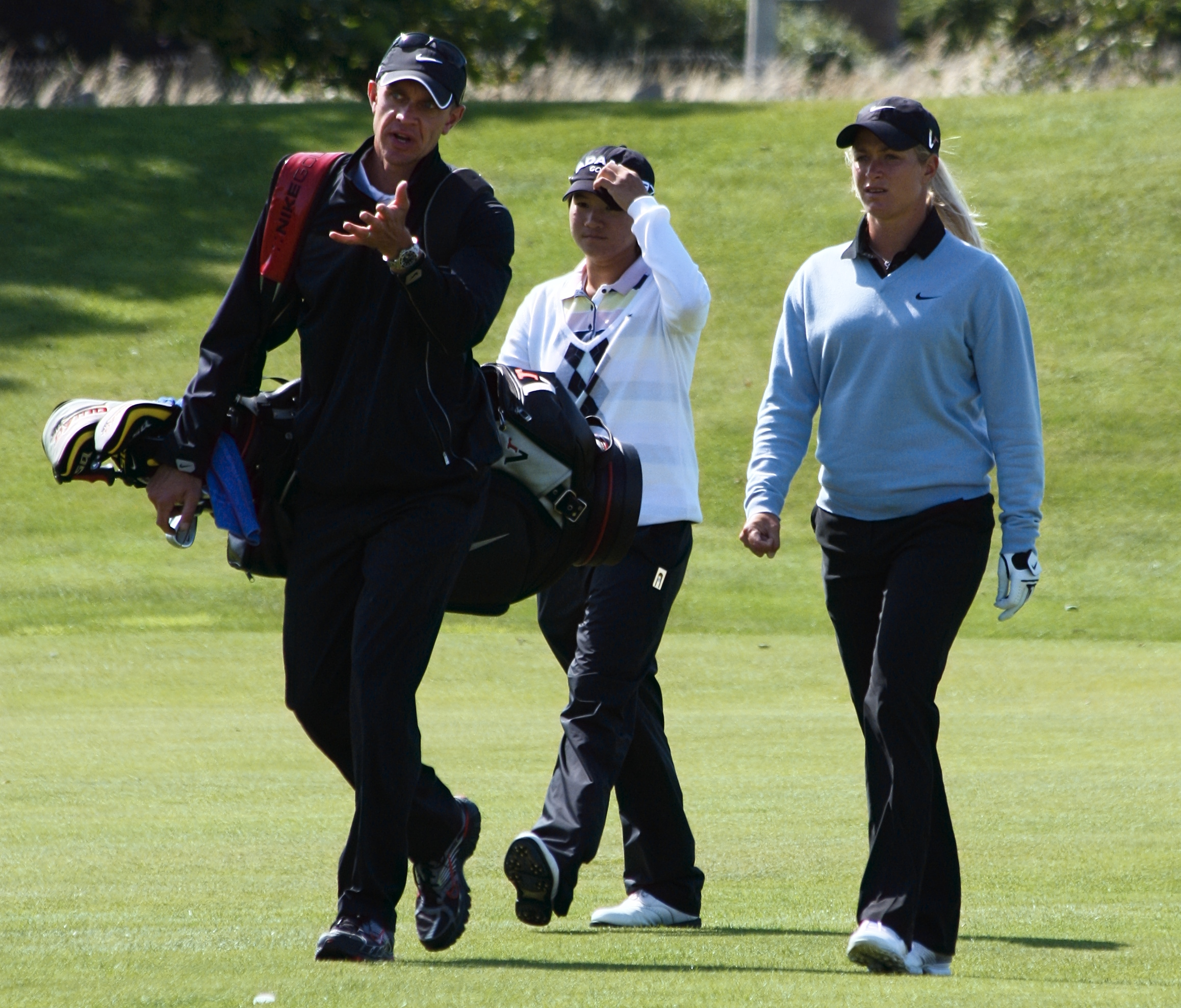 LYTHAM ST ANNES, UNITED KINGDOM - JULY 27: Suzann Pettersen of Norway and Yani Tseng of Taiwan walk the 2nd fairway accompanied by Pettersen's caddie David Brooker during first practice round before 2009 Ricoh Women's British Open held at Royal Lytham & St Annes on July 27, 2009 in Lytham St Annes, England. (Photo by Wojciech Migda)